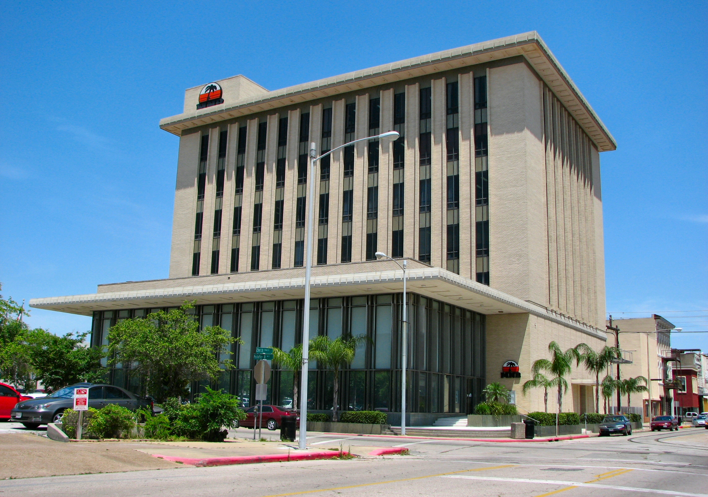 Moody National Bank's headquarters in downtown Galveston, Texas. Photo taken by myself on 05/17/07